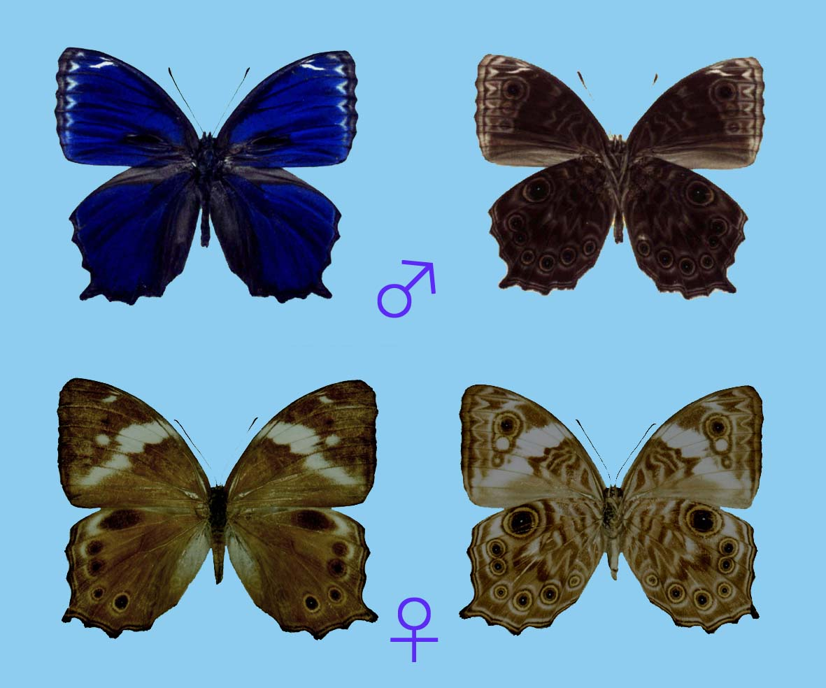 Ptychandra ohtanii, male and female